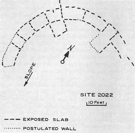 Sketch of Site 2022 - obtained from